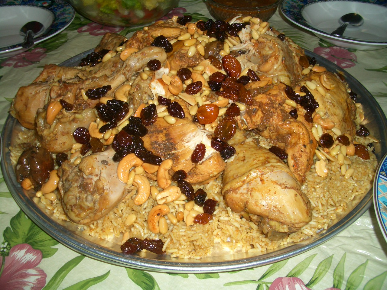 Kabsa